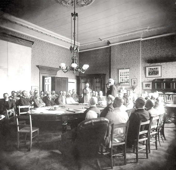 About 40 politicians, company officers and senior public servants seated around a large table in the office of the Chief Secretary of South Australia on 4 February 1907. Mr A.H. Peake, the state Treasurer, is handing over a cheque paying for the assets of Adelaide's horse tram companies to Mr A.M. Simpson, a public benefactor, representing the companies.